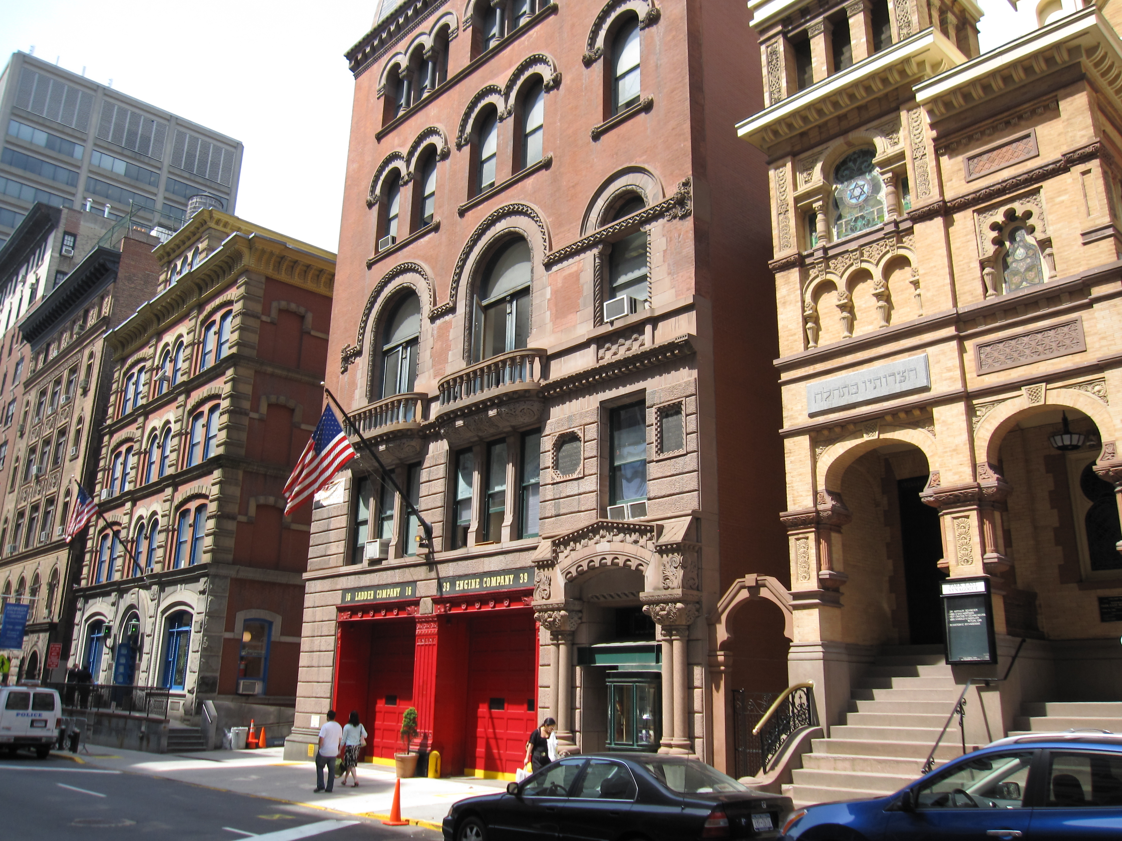 Fire Engine Company 39 and Ladder Company 16 Station House East 67th Street, Upper East Side, Manhattan.